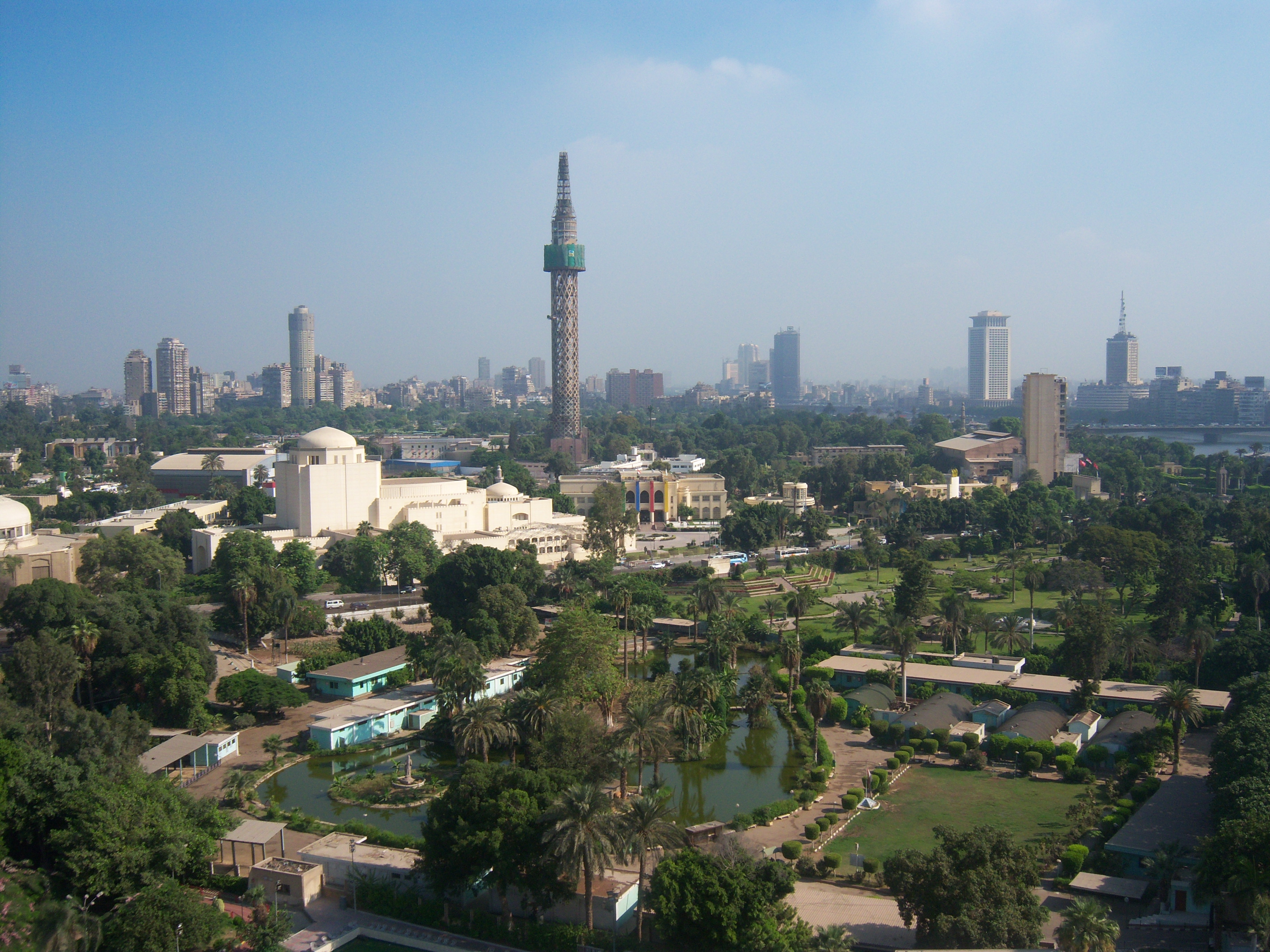 A view of Gezira, Cairo (Al-Qahira),from the Al-Jazeera Sofitel Hotel, The Cairo Opera House and Cairo Tower (Alqahira tower) are in the background.